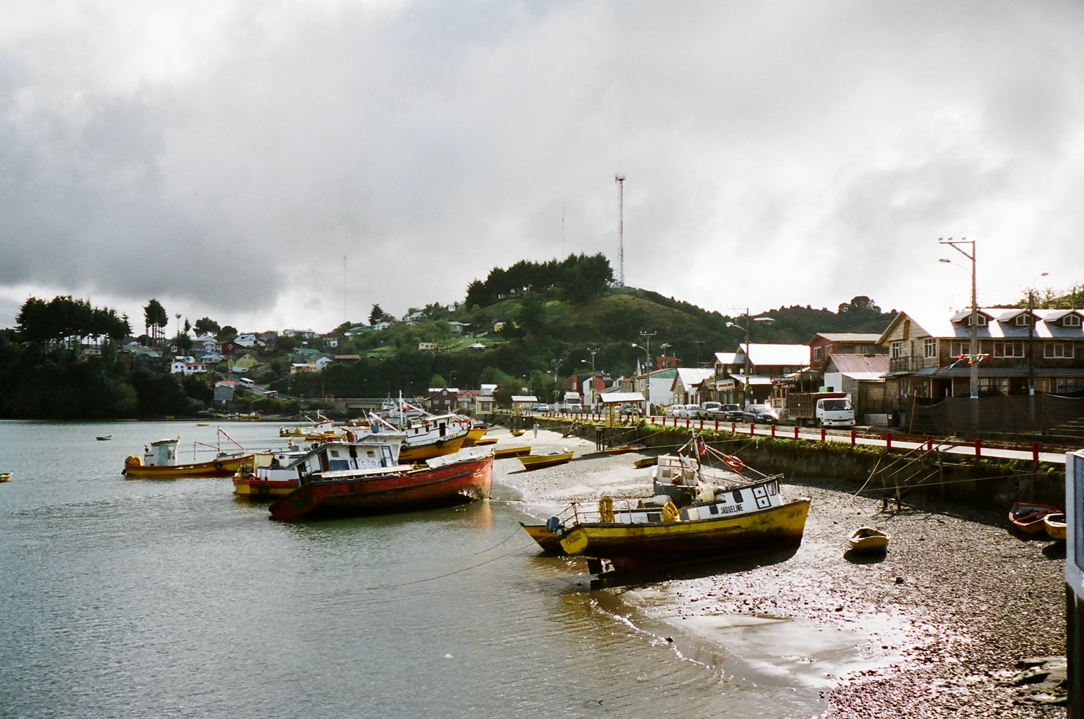 Seaside Quemchi is a small town of northeastern Chiloe Island, Chile